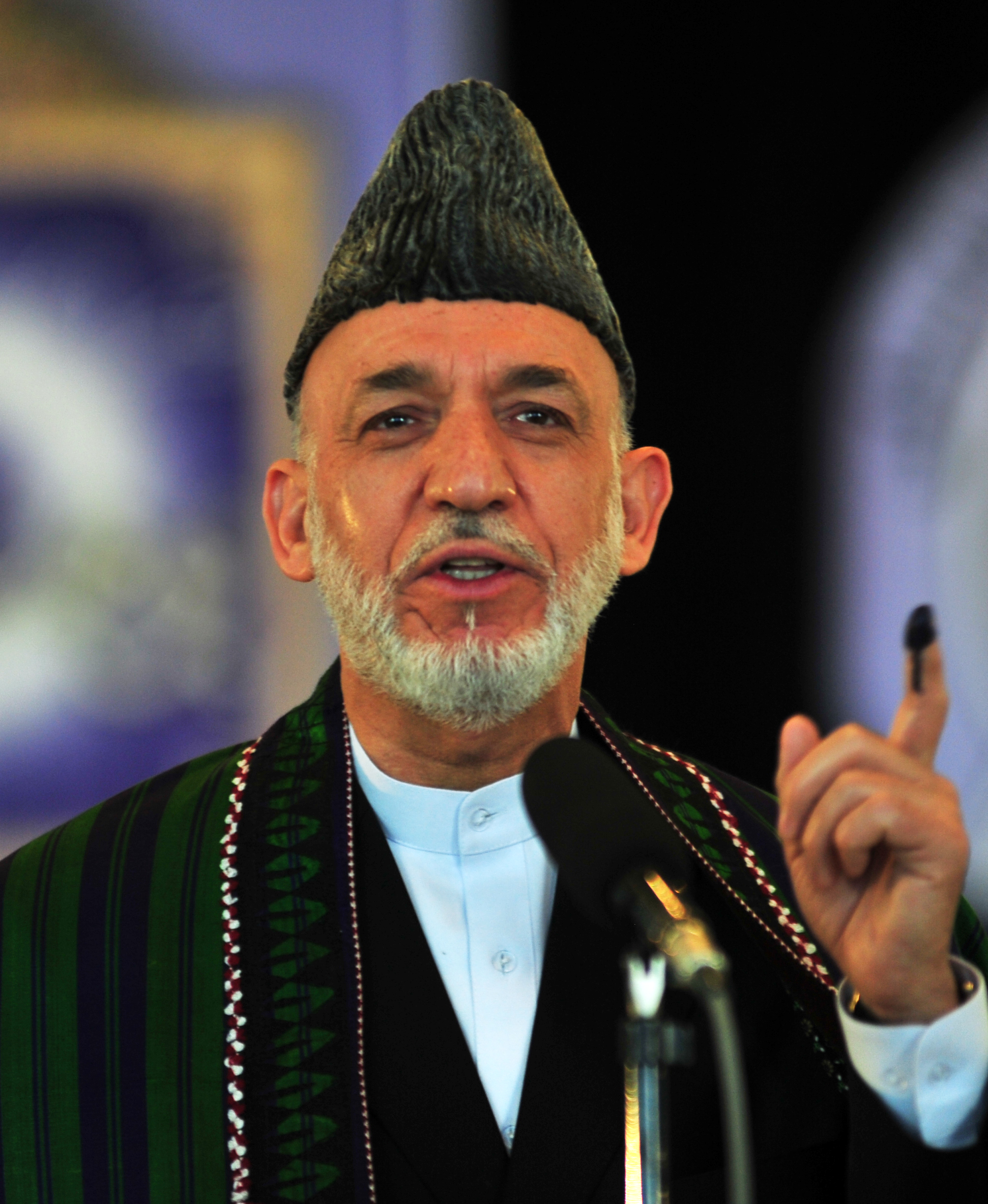 President Hamid Karzai speaks to the journalists in Kabul after casting his vote. He said Afghans should vote for the candidate of their choice and called the vote “a step towards progress and democracy.”